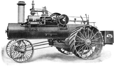 1908 Russell steam BIG-Voss